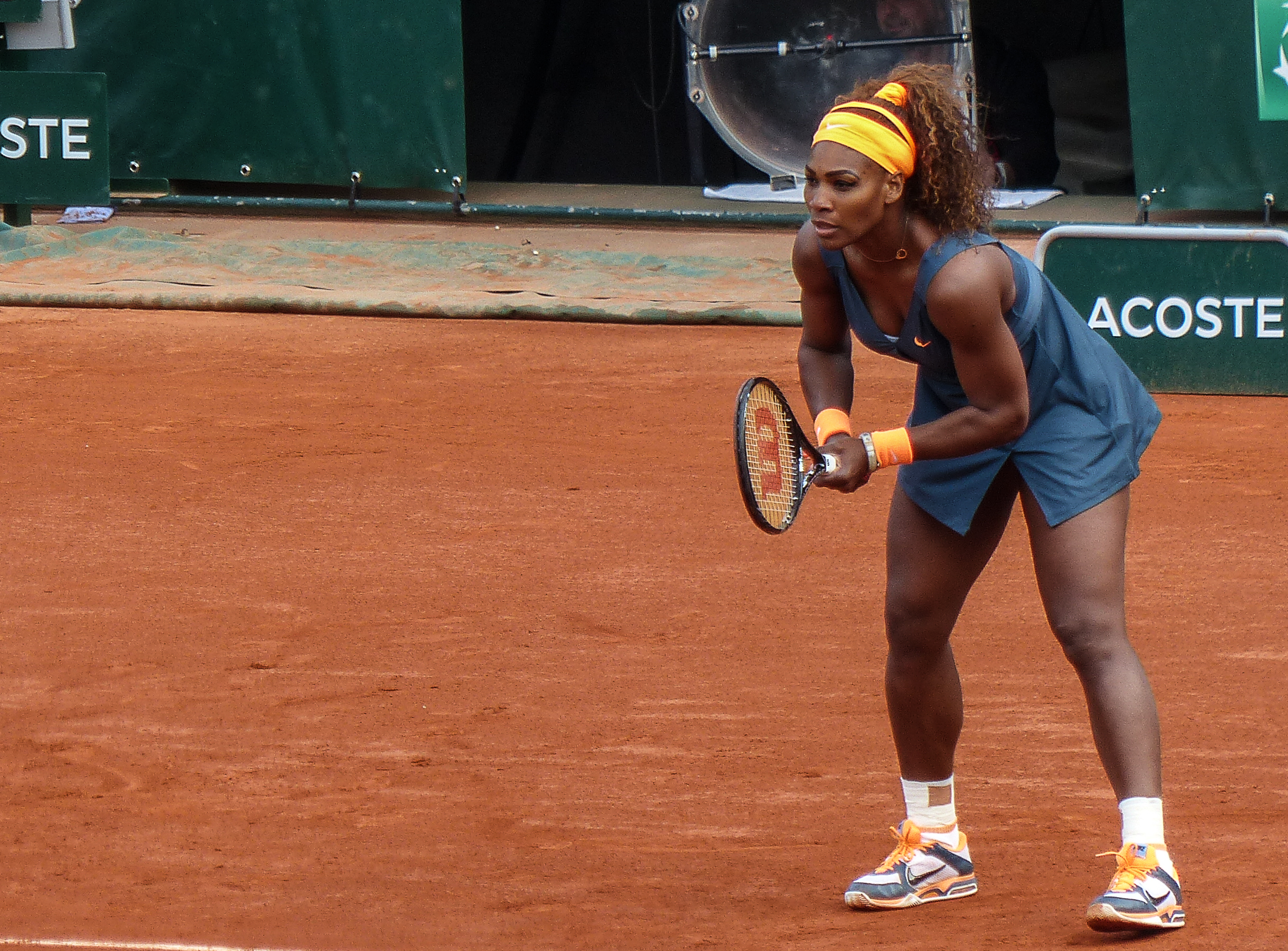 2ème tour Roland Garros 2013 : Serena Williams (USA) def. Caroline Garcia (FRA)